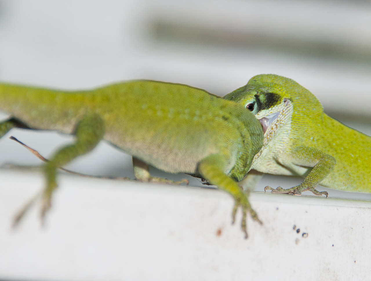 Carolina Anole in Territorial Fight with Rival Male. Rarely seen 'fight' coloring behind the eyes and neck ridge showing aggressive posture is clear to see. Taken in SE Texas on July 26, 2013